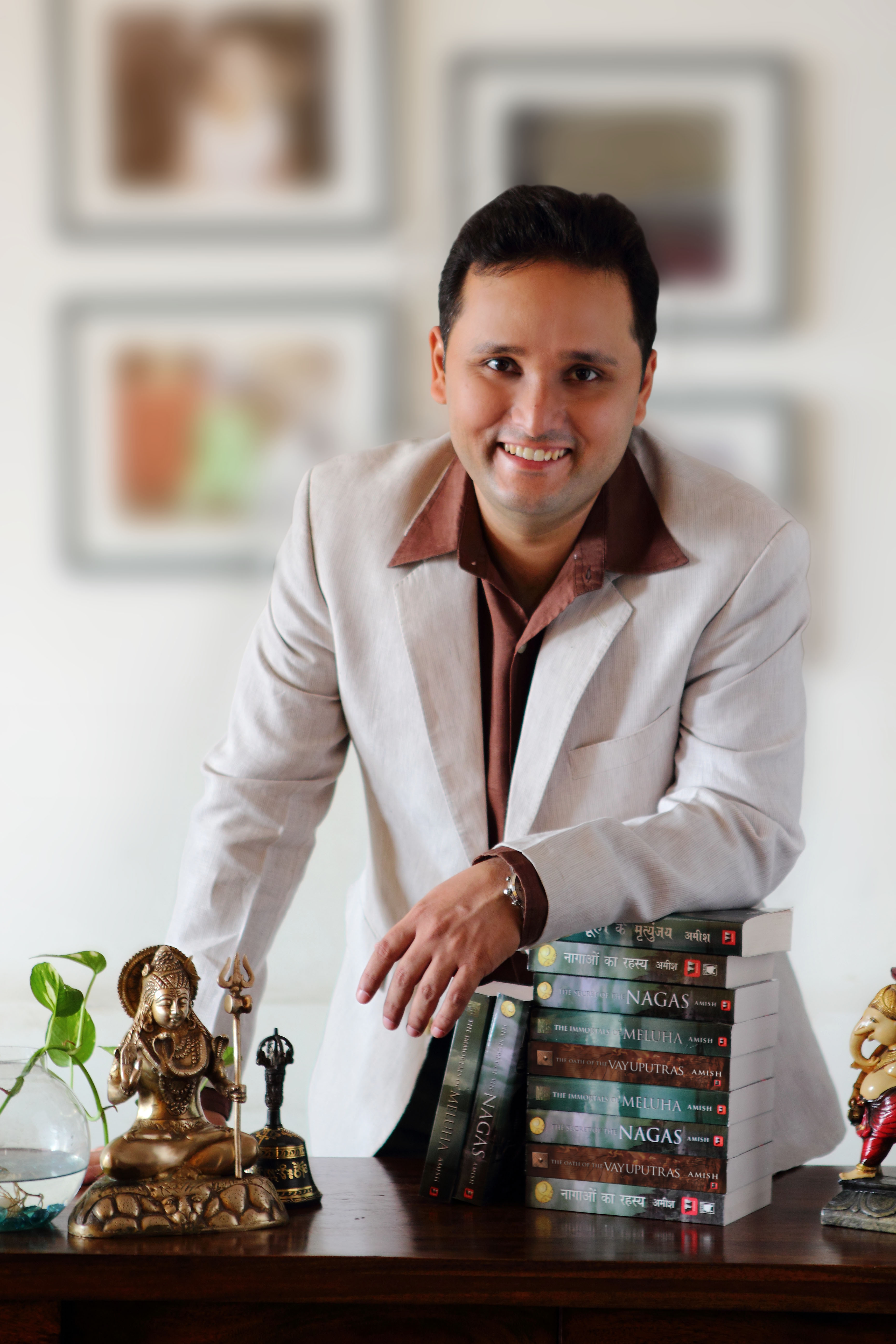 Indian writer Amish Tripathi Image uploaded as part of User:Tinucherian's Improve Indian Biography Images Project